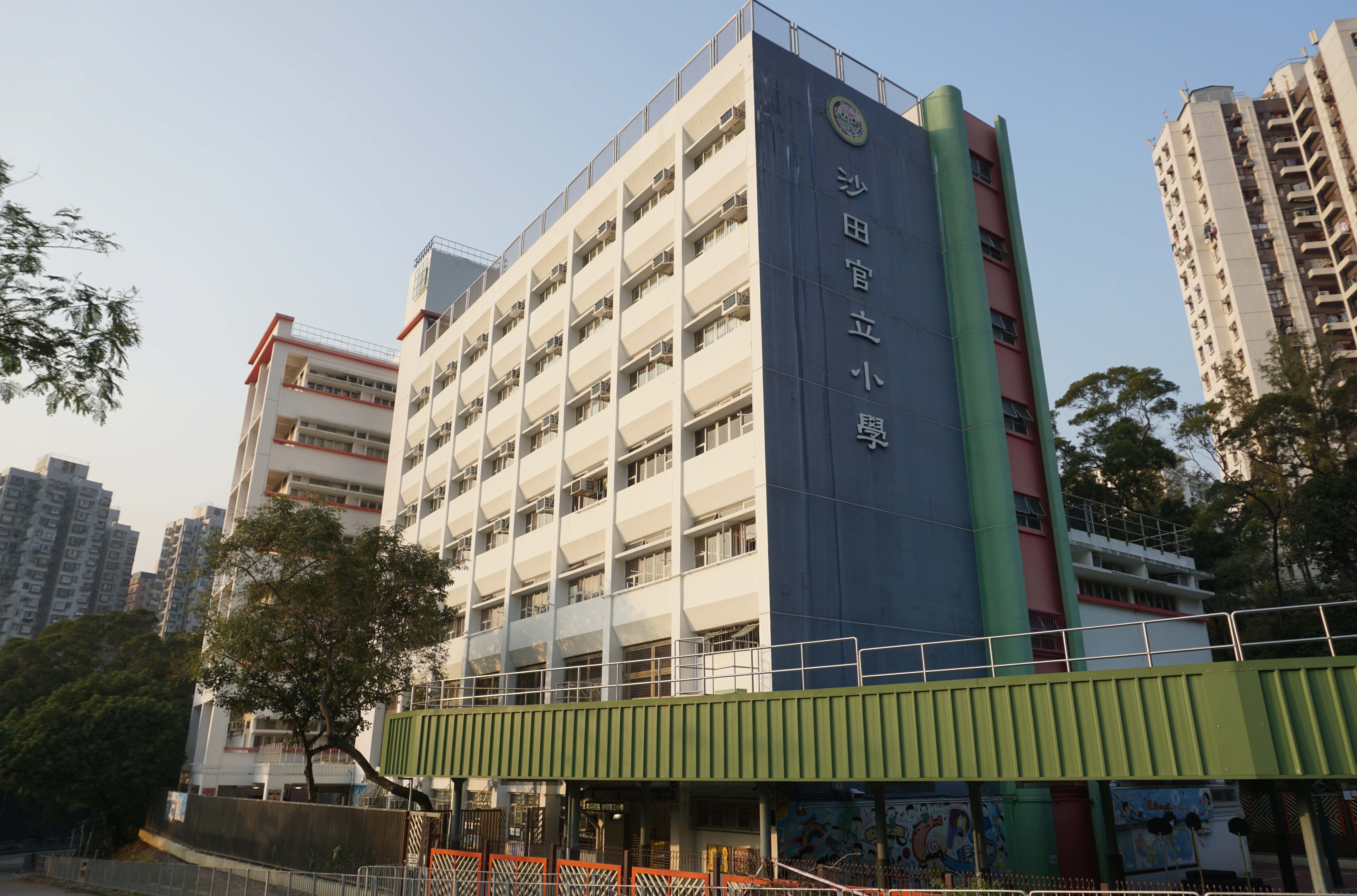 Shatin Government Primary School in Sha Tin Tau, Hong Kong.